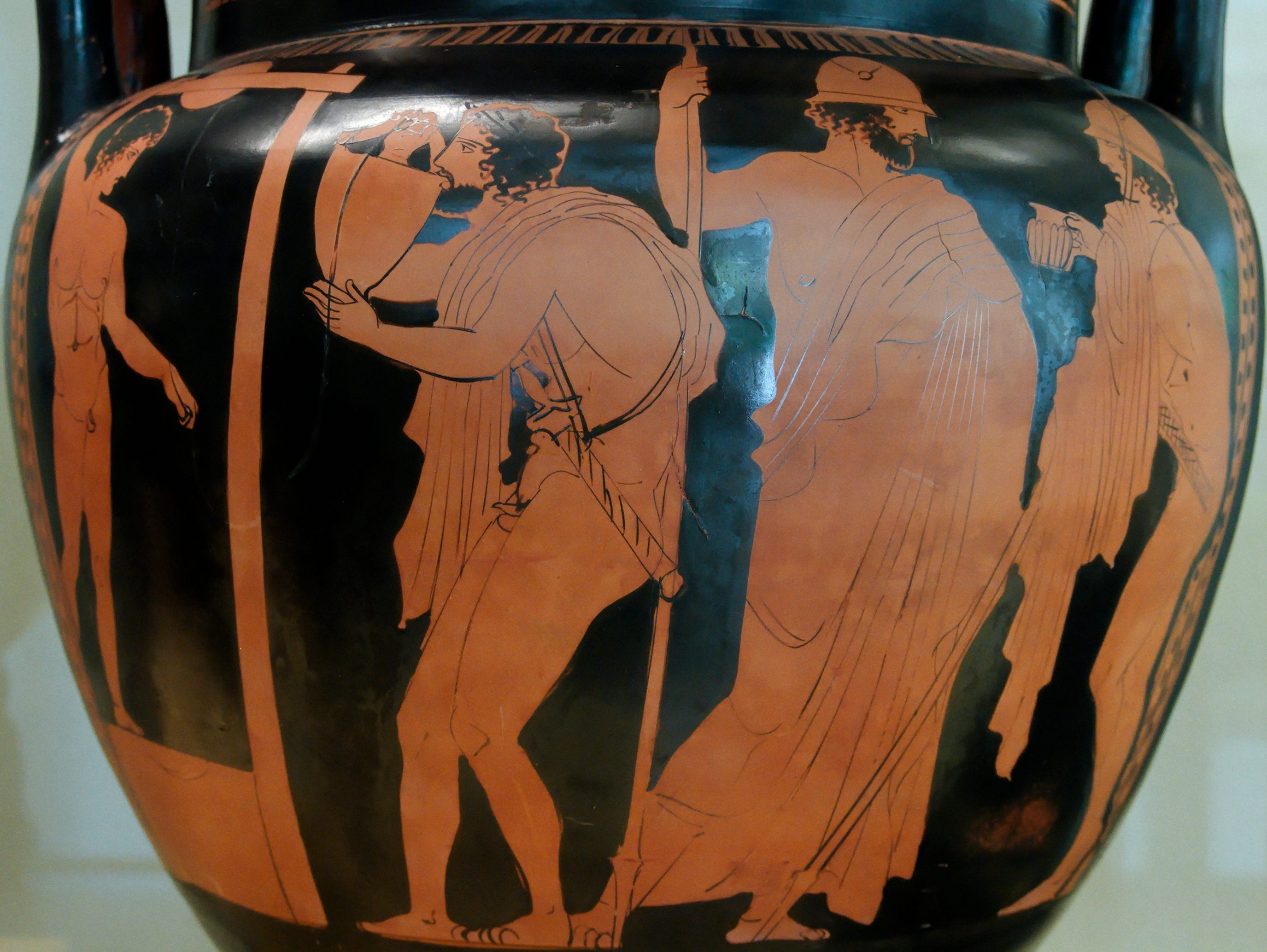 Soldiers drinking at a well. Side A of an Attic red-figure column-krater, 450–430 BC.